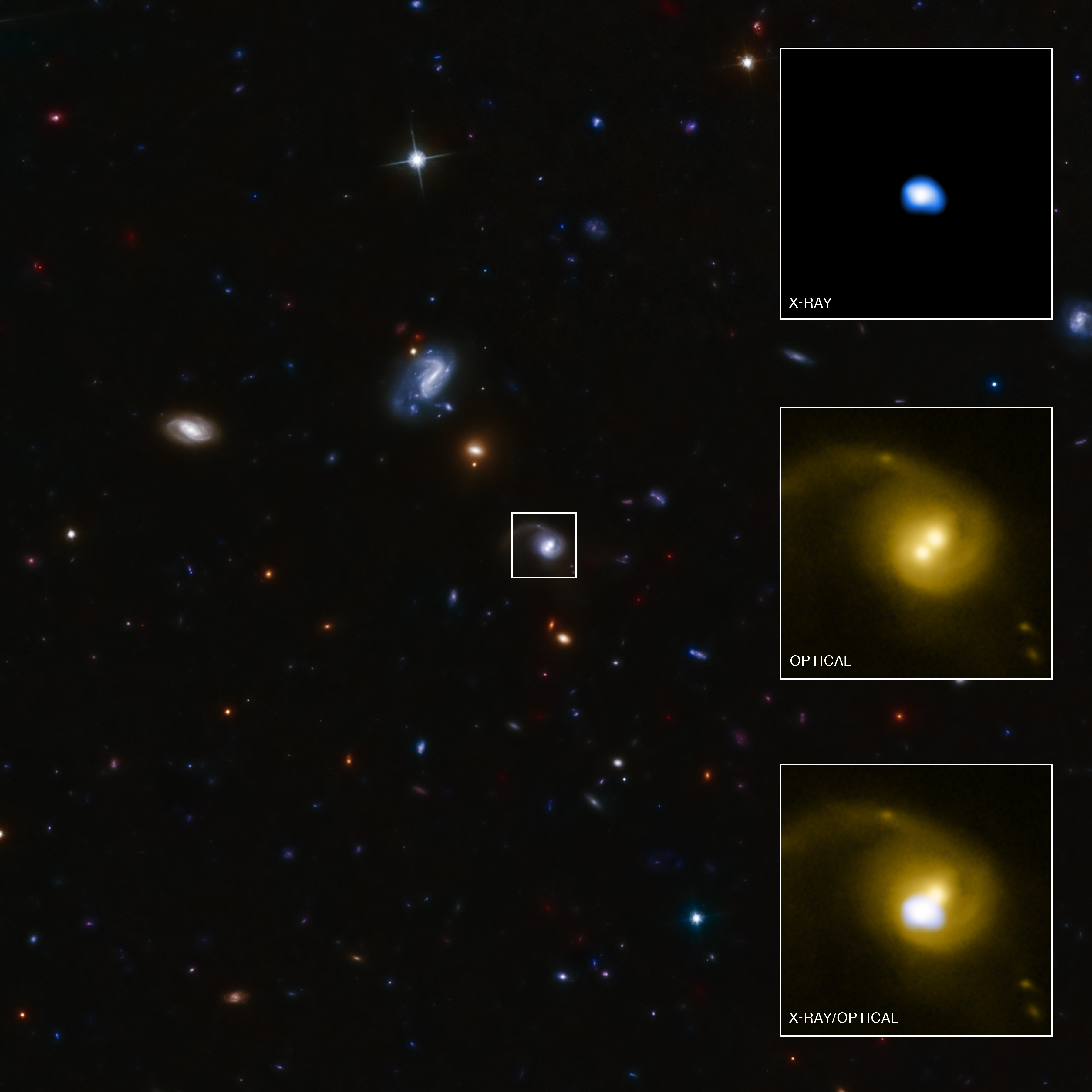 X-ray and optical images of the galaxy CID-42 showing the bright X-ray spot which may be a black hole.